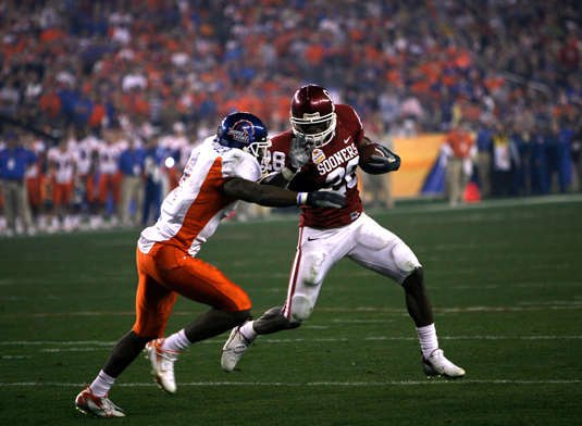 Running back Adrian Peterson runs by Boise State's Gerald Alexander during the 2007 Fiesta Bowl.adrian peterson